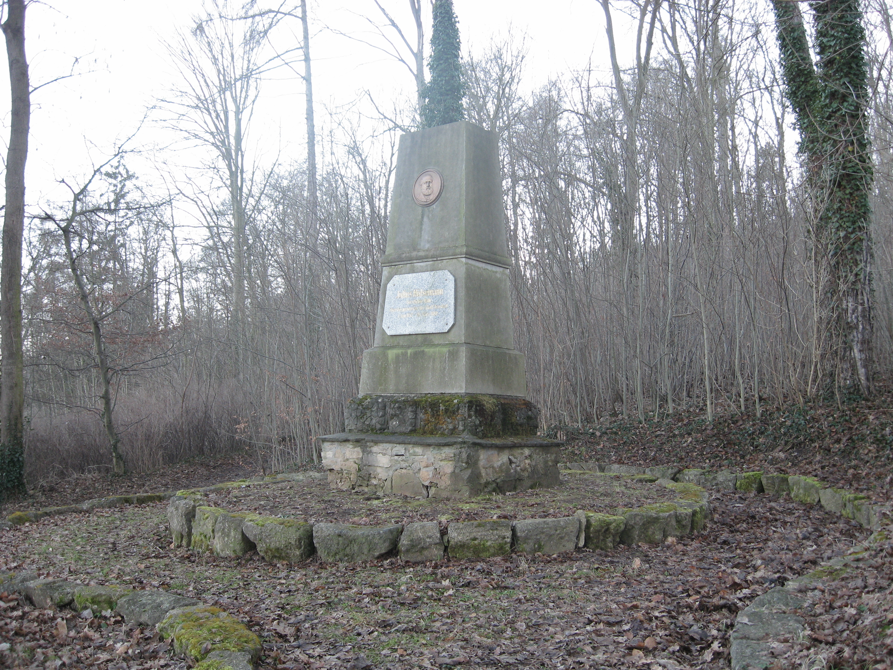 Monument for Julius Hülsemann in Arnstadt